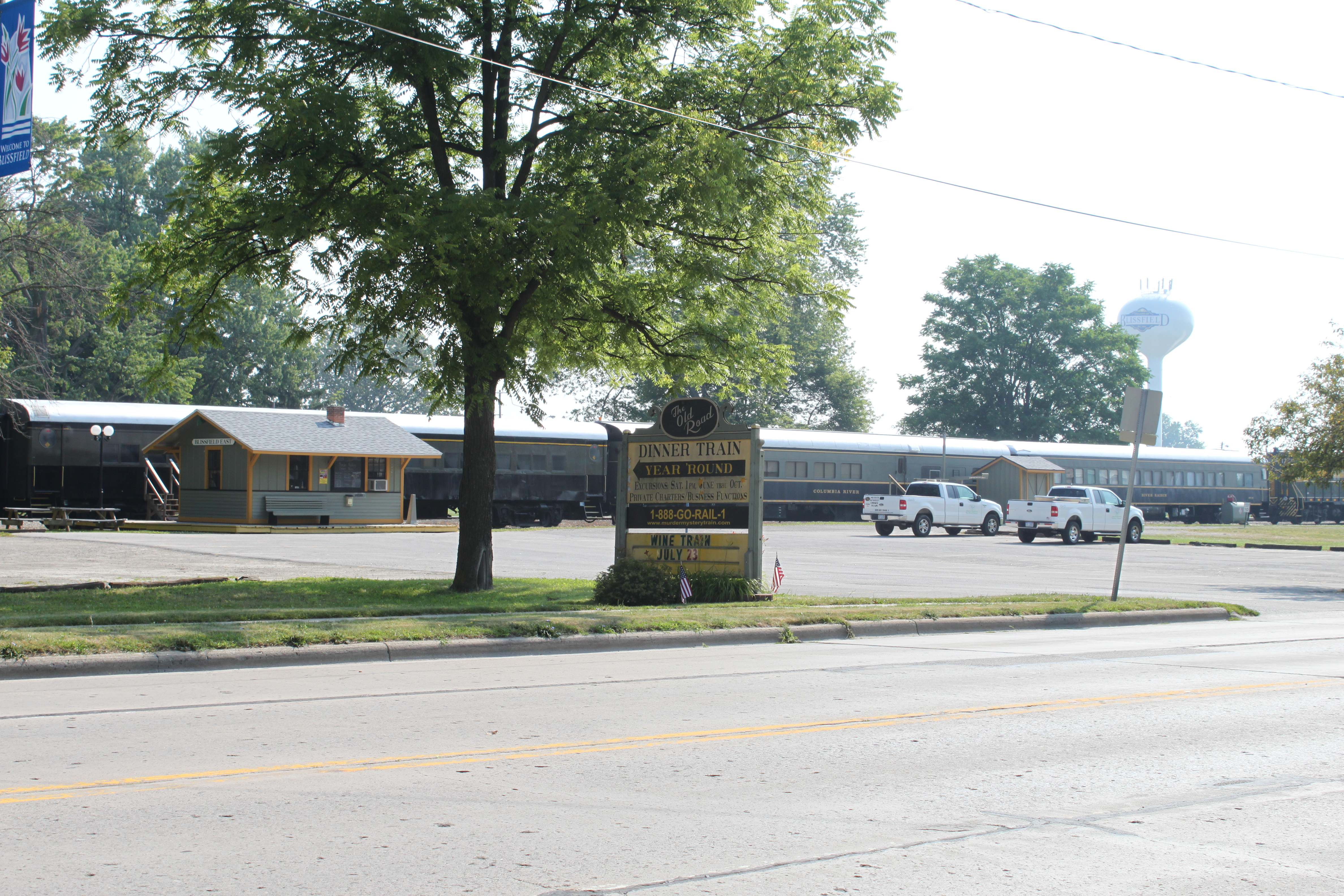 Blissfield Village Michigan, The Old Road dinner train, 301 E. Adrian Street